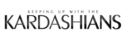 The logo of Keeping Up with the Kardashians